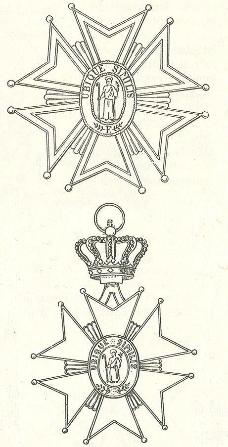 Star and cross of the Order of Saint Joseph (Tuscany and Würzburg 1807–17, Tuscany 1817–)